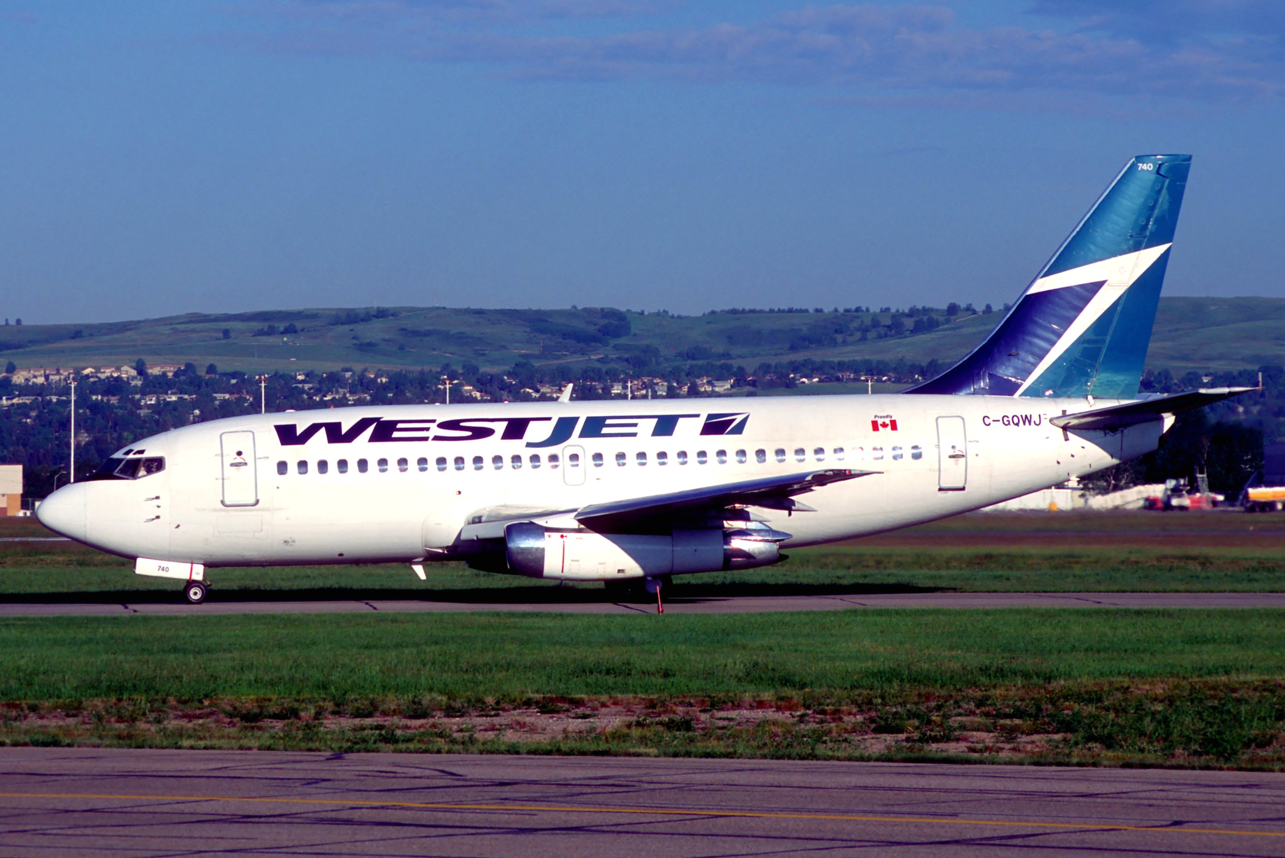 Westjet Boeing 737-200 (C-GQWJ) at Calgary International Airport This Boeing 737-281 took its first flight on July 3, 1979... 24/07/1979 All Nippon Airways JA8455 01/09/1992 Air Nippon - ANK JA8455 13/11/1998 WestJet C-GQWJ 05/03/2002 WestJet C-GQWJ stored 01/2006 at Bournemouth,UK as N752AP 01/12/2006 Aerosur CP-2486 stored 05/2009